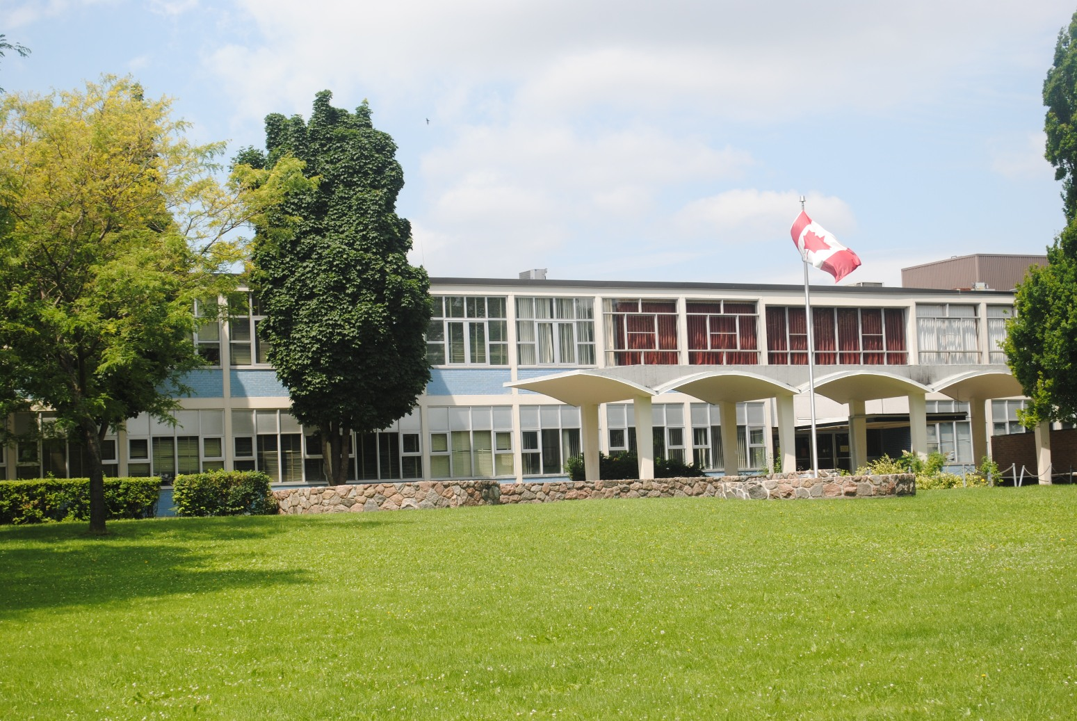 Front facade of Richview Collegiate, June 2010. Photo courtesy of the school.